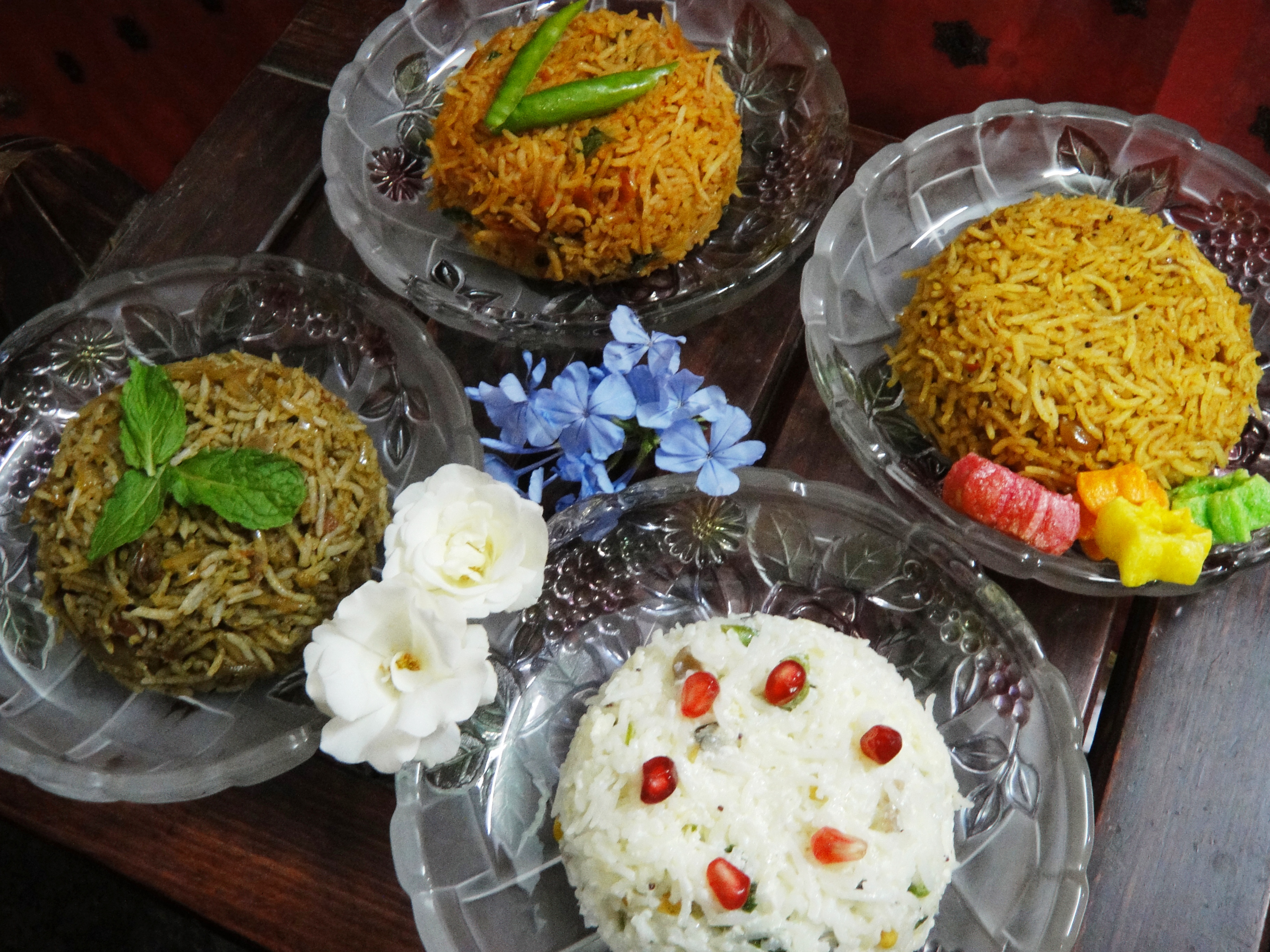 Basmati rice infused with the flavours and spices unique to India, catering to its diverse taste palate - Tomato Rice, Tamarind Rice, Curd Rice and Mint Rice. (Clockwise from top)